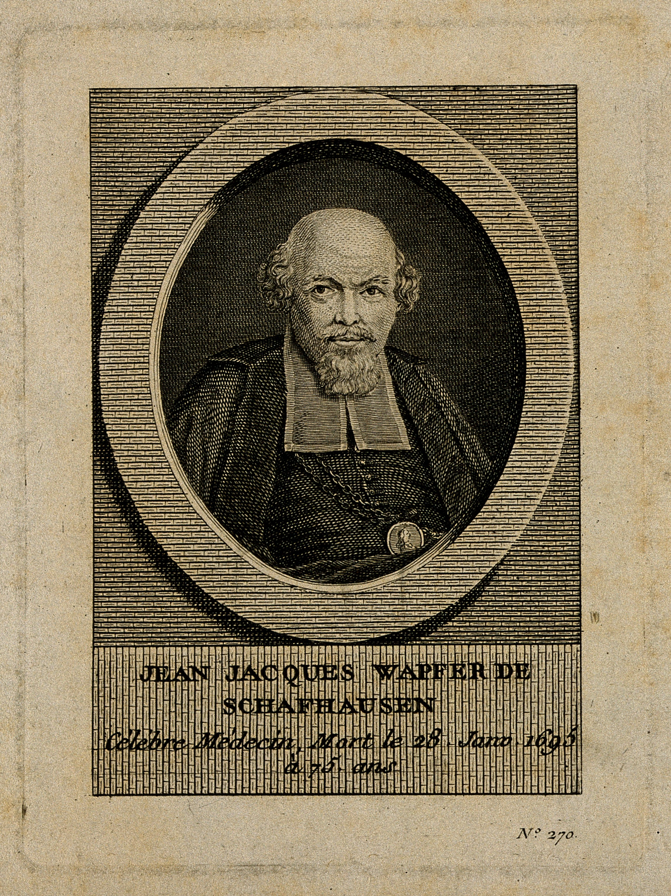 Johann Jakob Wepfer. Line engraving. Iconographic Collections Keywords: portrait prints; engravings; Johann Jakob Wepfer